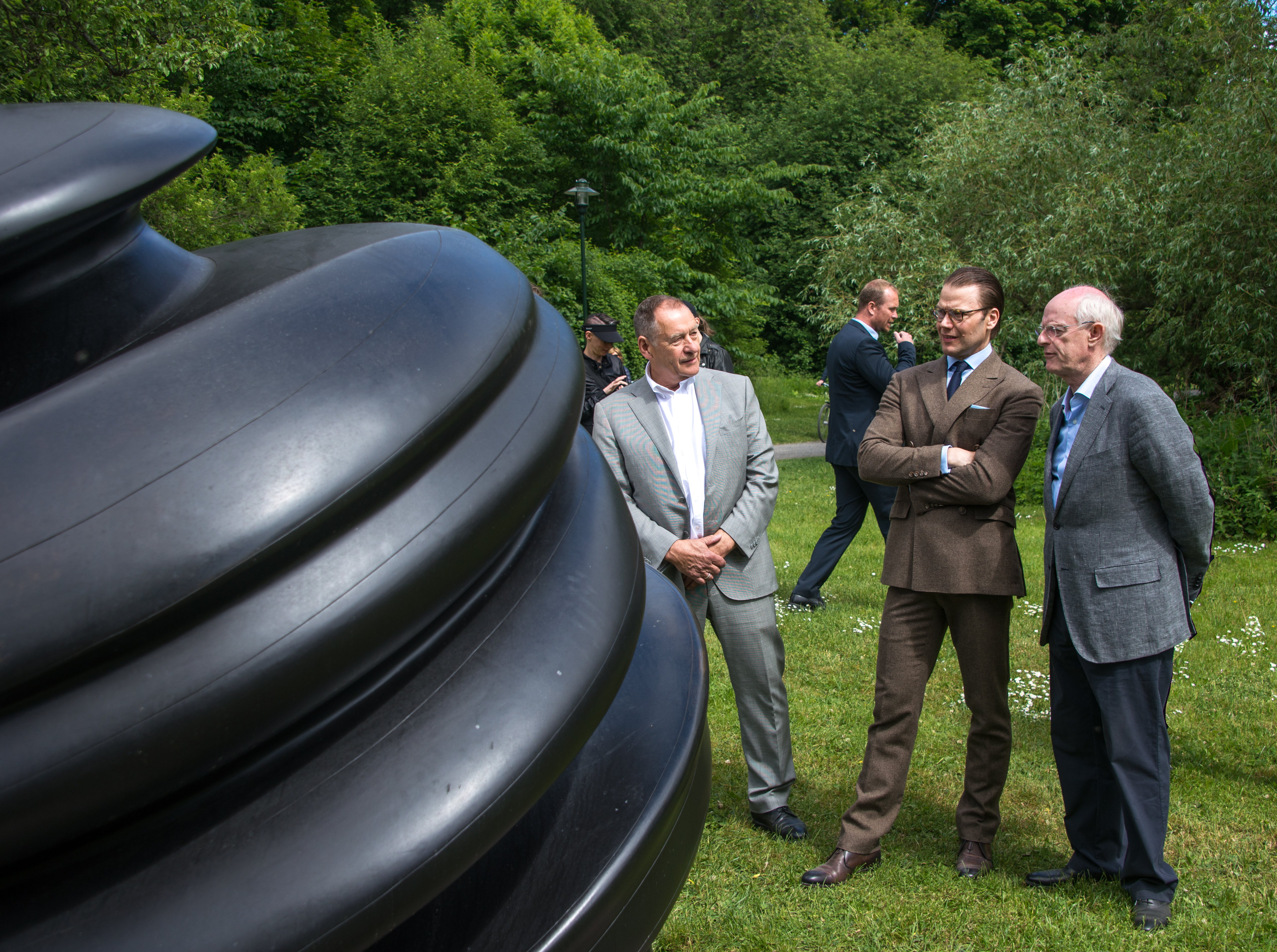 Tony Cragg's sculpture exhibition at Djurgården in Stockholm in summer 2016.